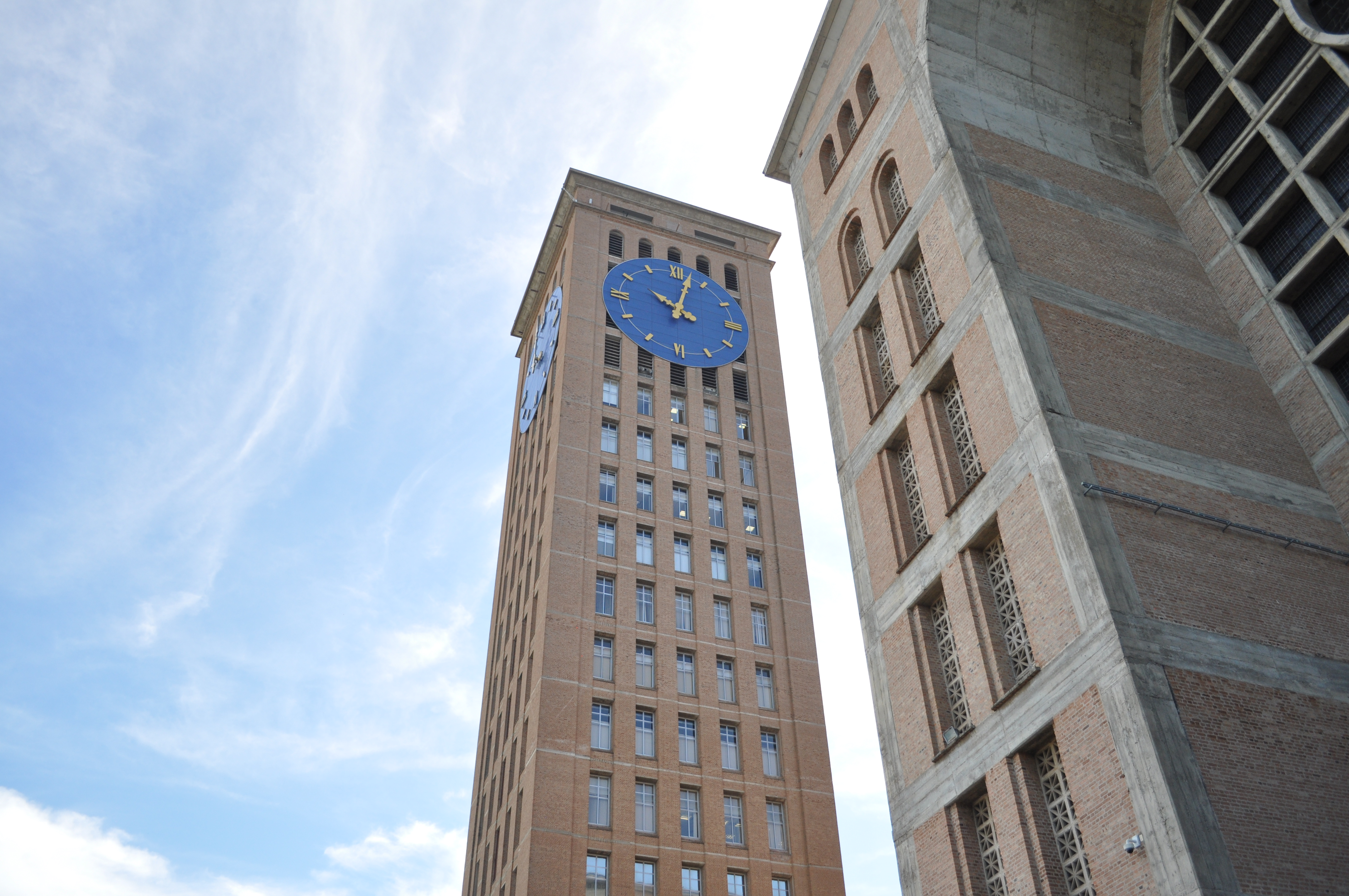 Sanctuary Nossa Senhora Aparecida - SP